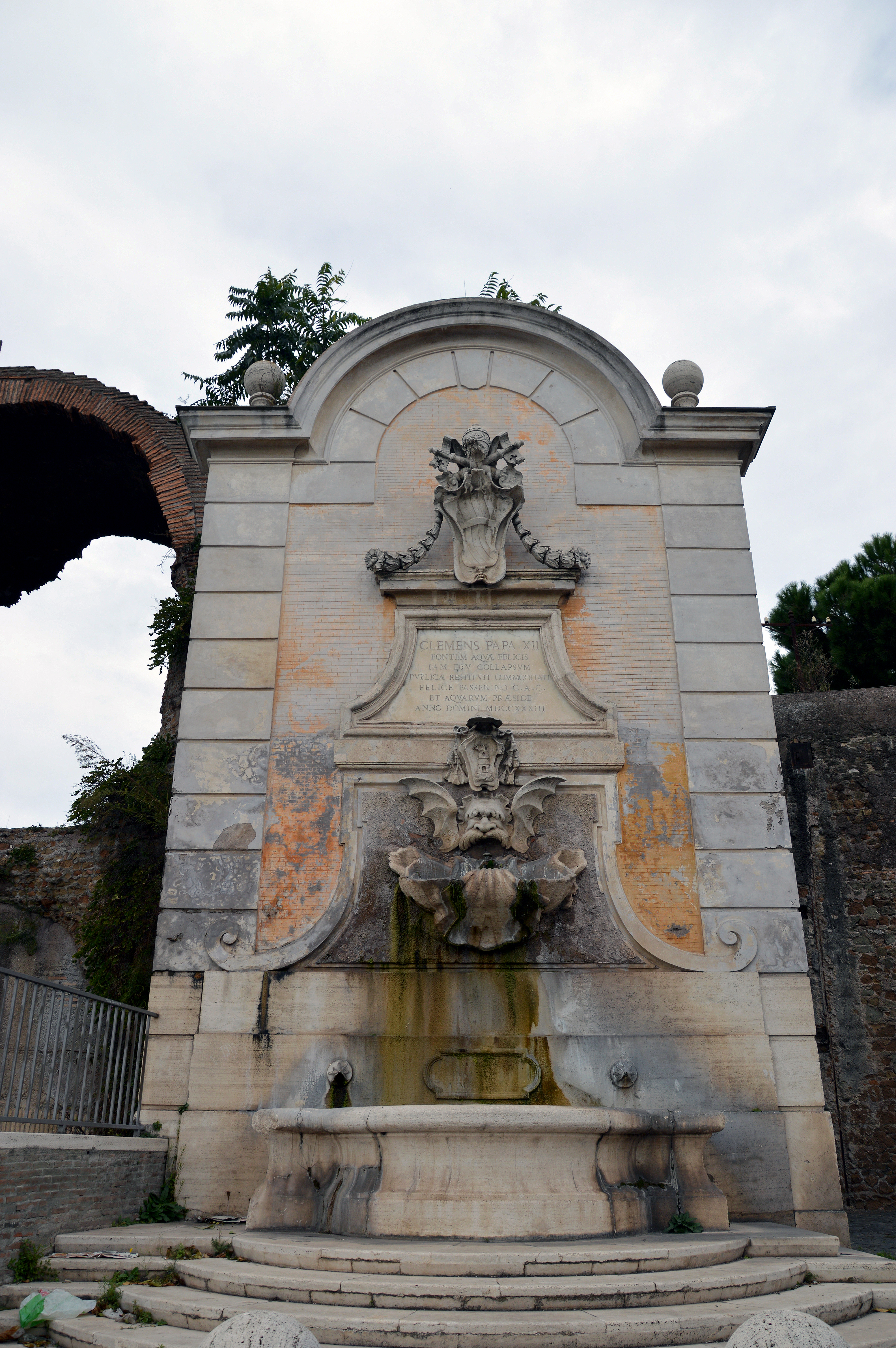 Fontana di Porta Furba